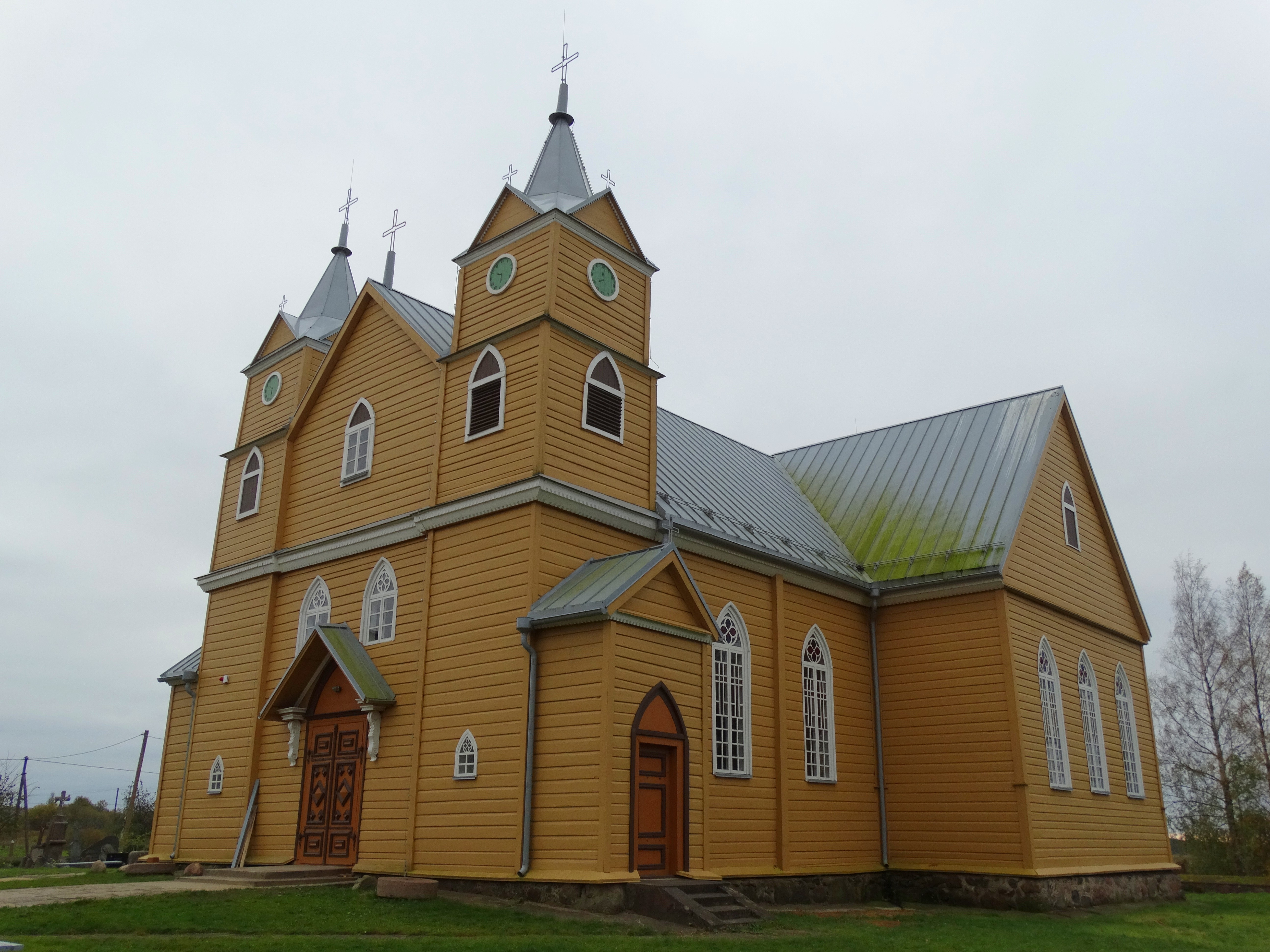 Church of St. Catherine the Martyr in Notėnai, Skuodas District, Lithuania